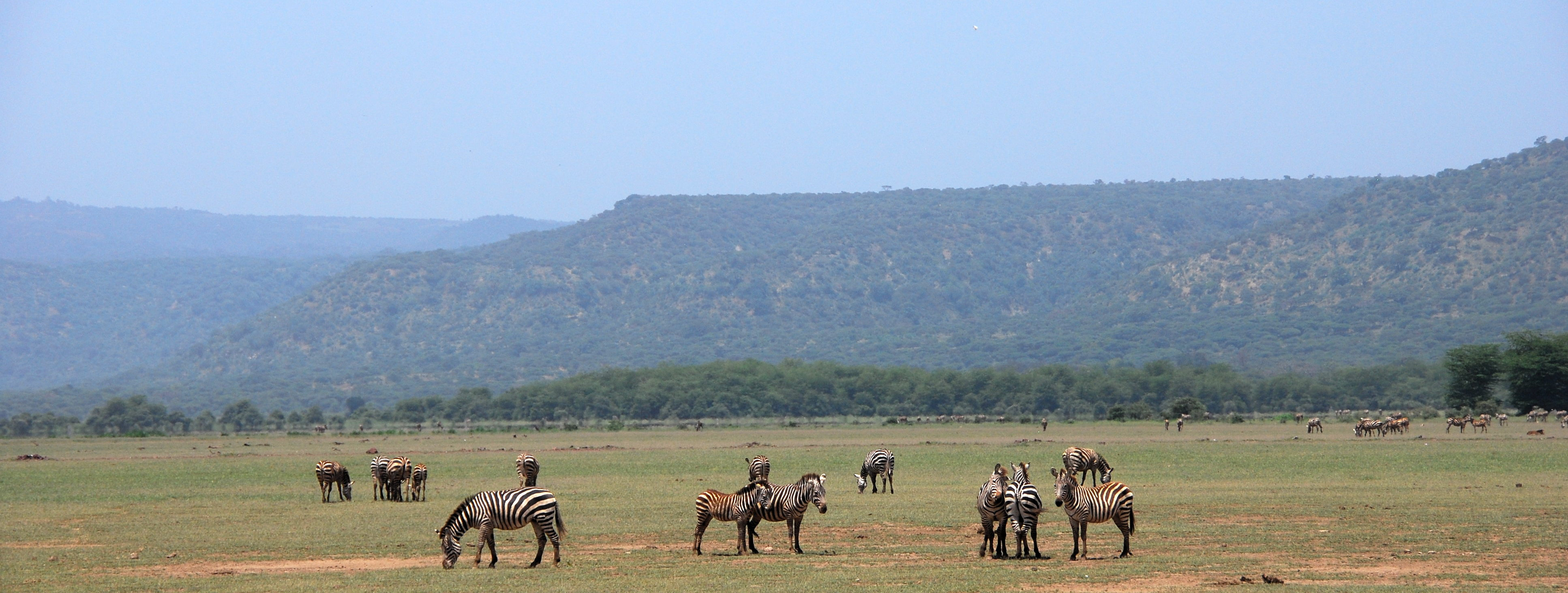 wildlife in the Manyara National Park, Tanzania